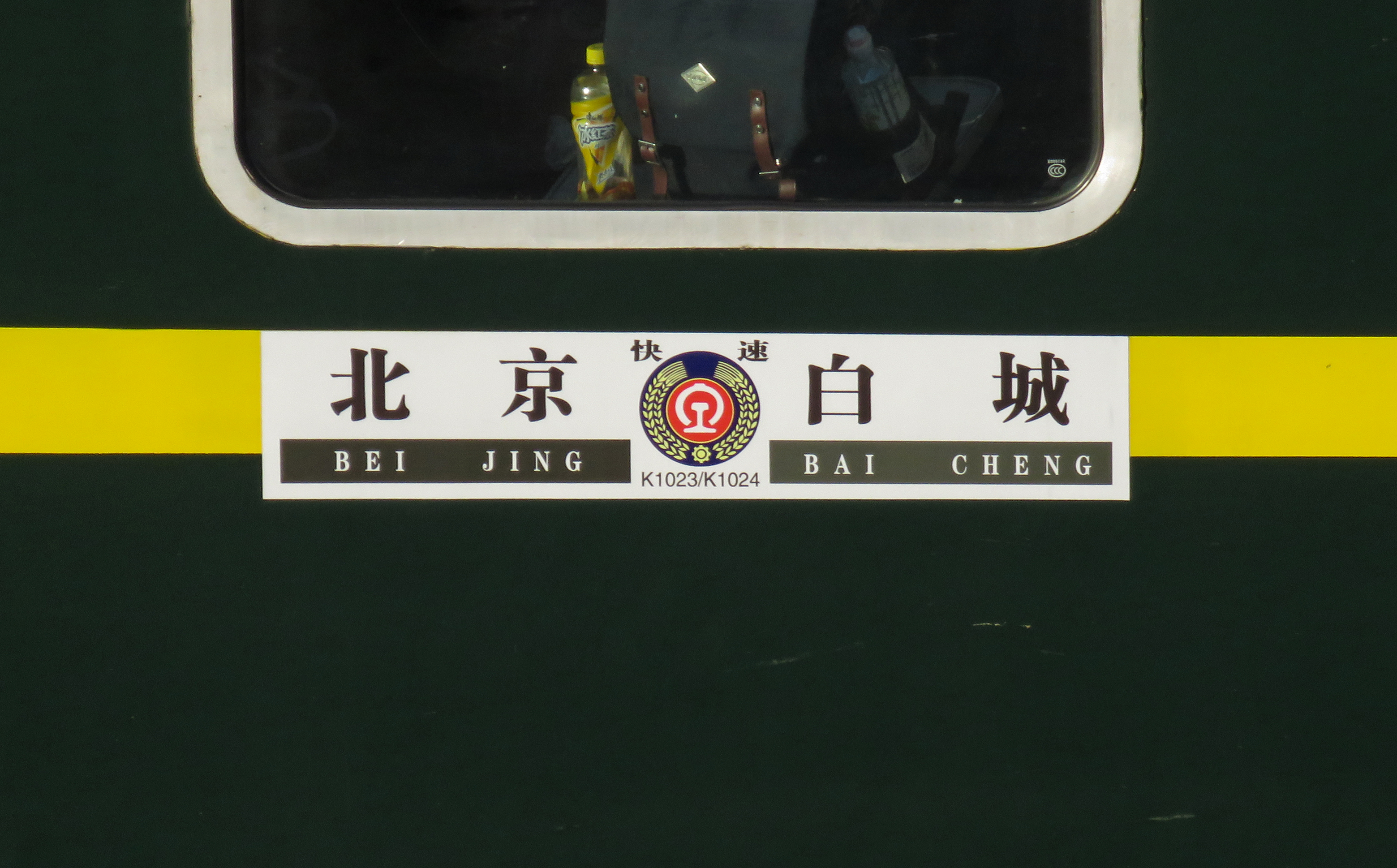 Destination switched from Jilin to Baicheng.